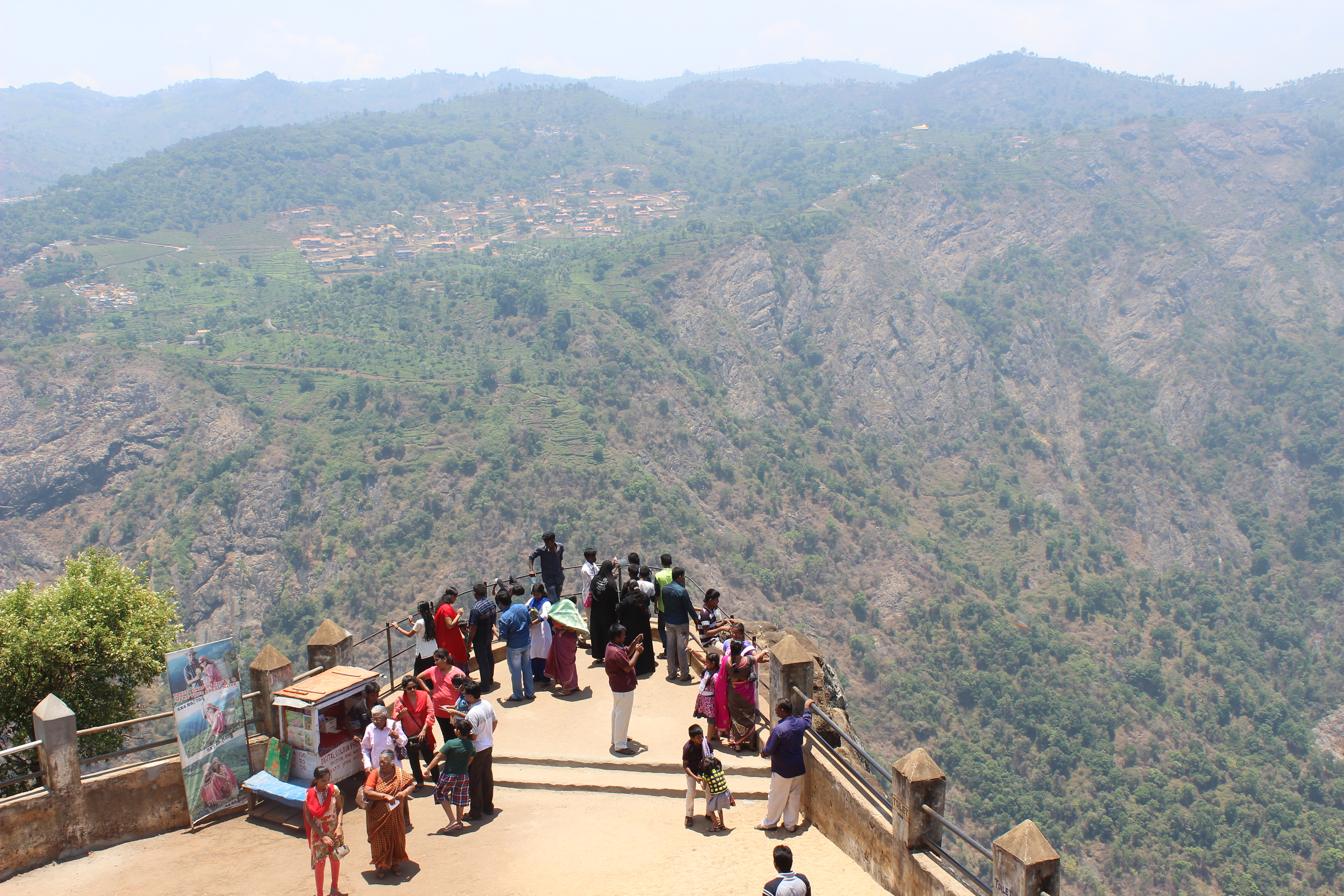 View from the Dolphin Peak in Ooty,Tamil Nadu.